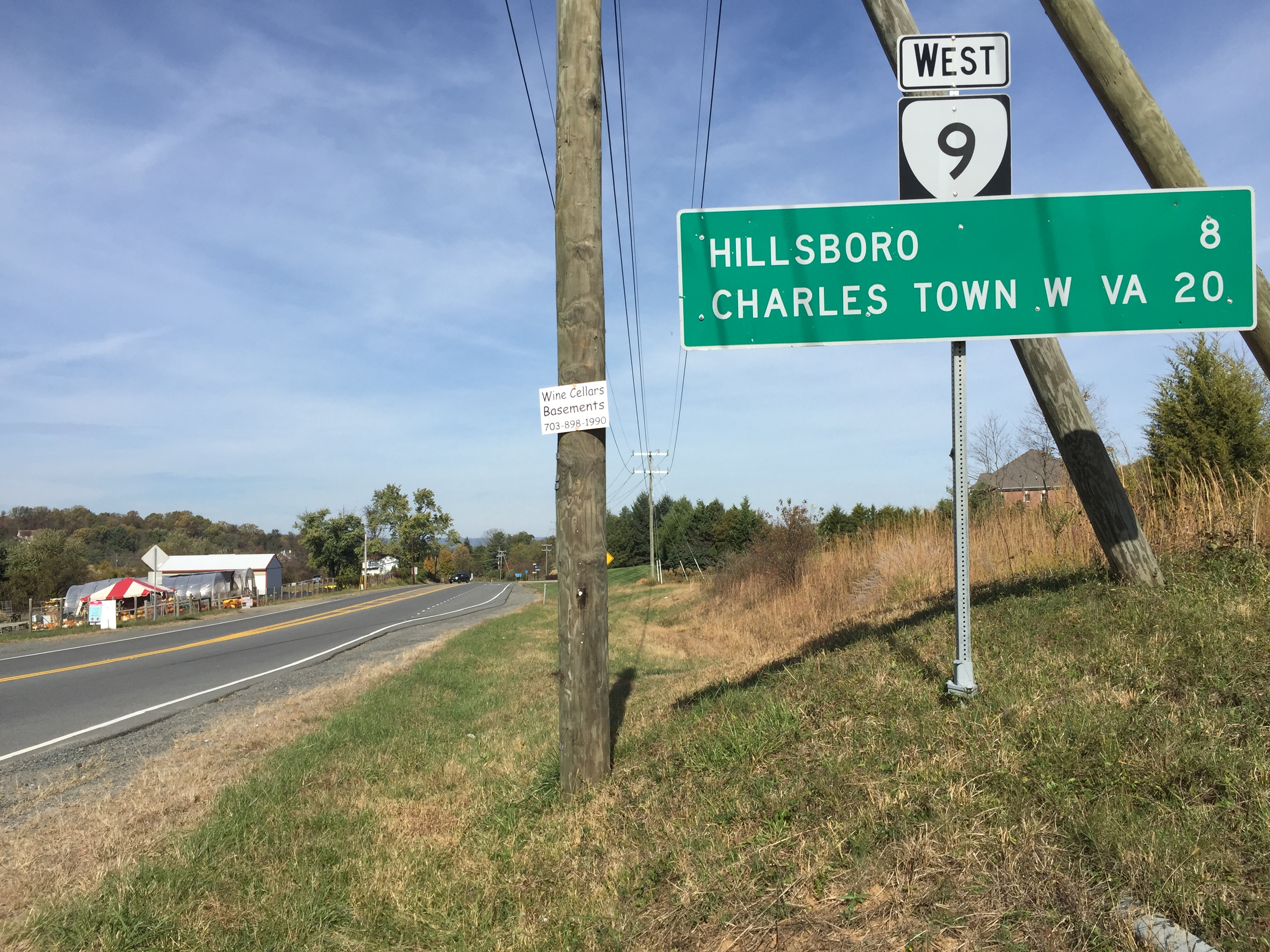 View west along Virginia State Route 9 (Charles Town Pike) between Simpson Circle and Beacon Hill Drive in Paeonian Springs, Loudoun County, Virginia